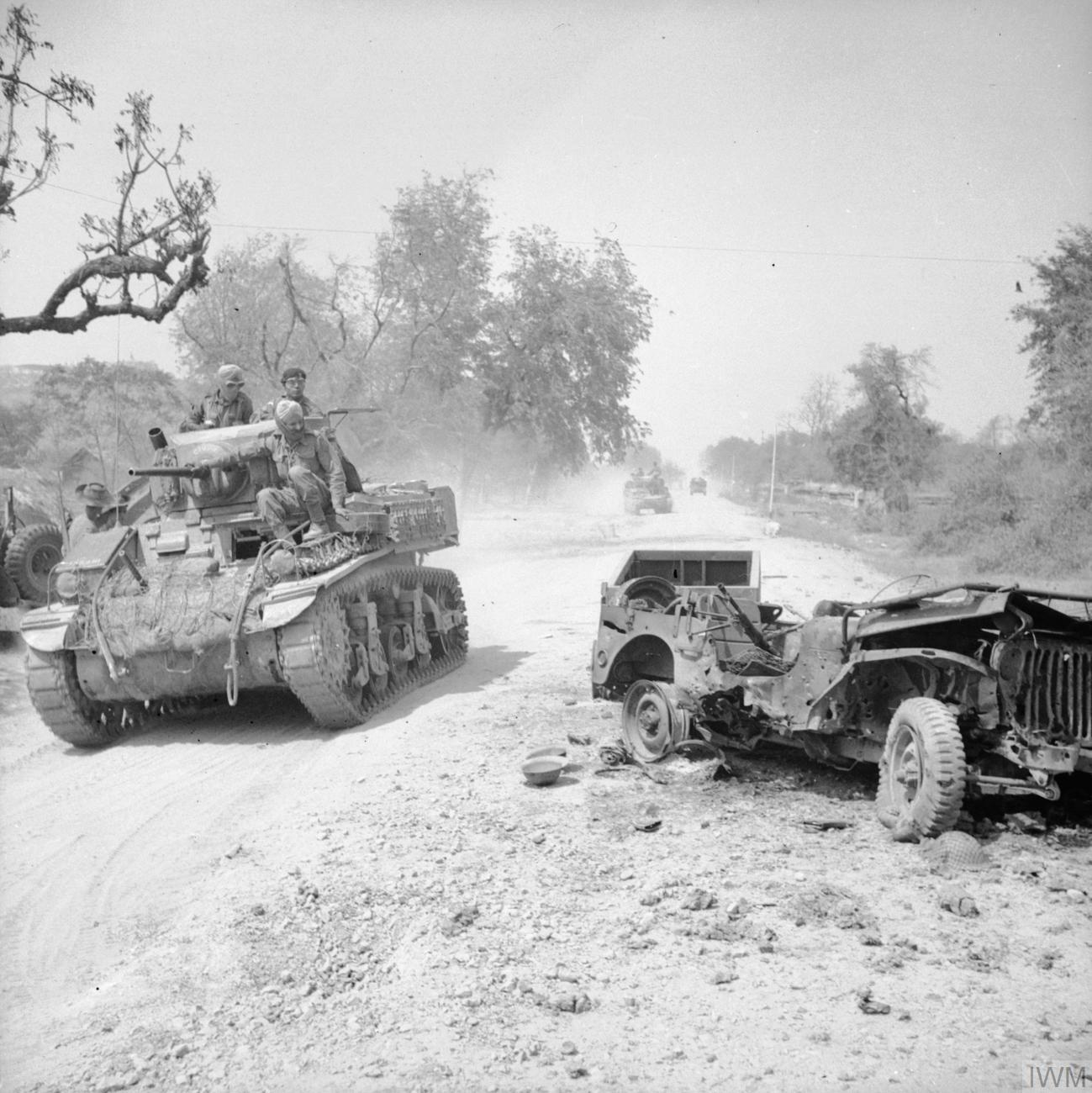 The British Army in Burma 1945 A Stuart tank, crewed by members of the 19th Indian Division, passes a destroyed jeep on the outskirts of Mandalay shortly after the fall of Fort Dufferin, 19 March 1945.